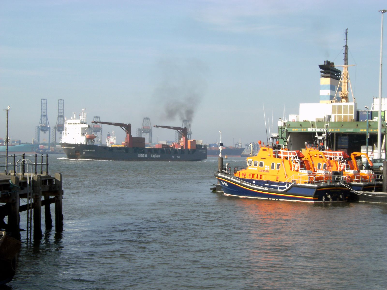 Container ship Sloman Trader at Harwich Essex IMO Number: 8214396 MMSI Number: 218732000 Callsign: DEDX Length: 129 m Beam: 22 m